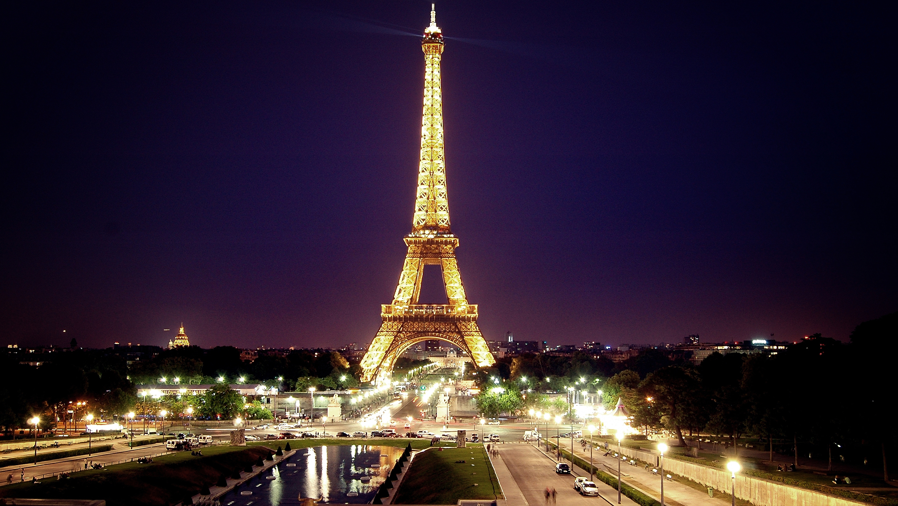 Eiffel Tower at night .